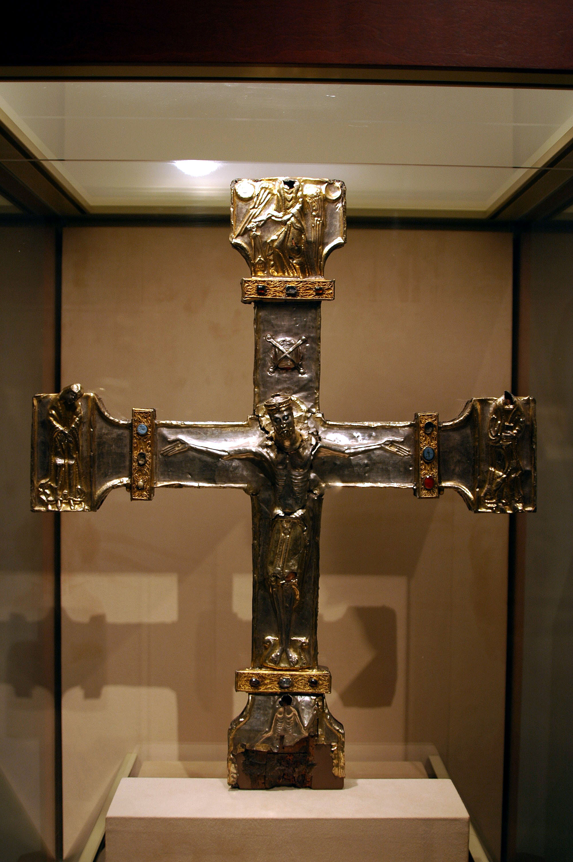 Processional Cross, late 11th–early 12th century Spanish Silver, partially gilt on wood core, carved gems, jewels; Overall: 23 1/4 x 19in. (59.1 x 48.3cm) The Metropolitan Museum of Art, New York, Gift of J. Pierpont Morgan, 1917 (17.190.1406) View at the Metropolitan Museum of Art website Wikipedia Loves Art at the Metropolitan Museum of Art This photo of item # 17.190.1406 at the Metropolitan Museum of Art was contributed under the team name "Futons_of_Rock" as part of the Wikipedia Loves Art project in February 2009. Metropolitan Museum of Art The original photograph on Flickr was taken by AlkaliSoaps—please add a comment to the original Flickr page whenever a use has been made on Wikipedia or another project. Project galleries on Flickr: this institution, this team